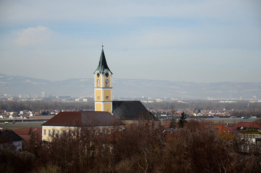 Tower of r.c. church in Ansfelden from south-east